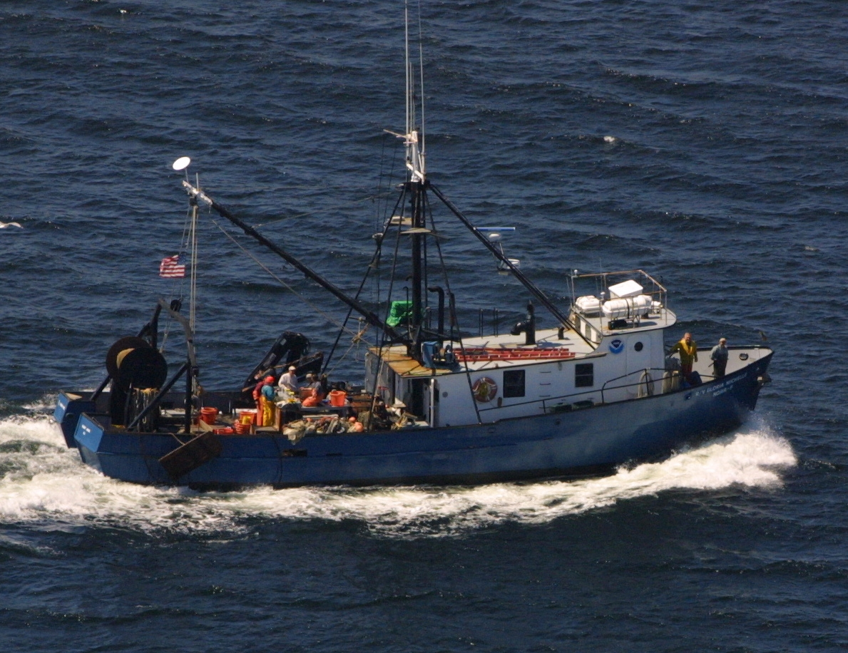 The U.S. National Oceanic and Atmospheric Administration fisheries research vessel RV Gloria Michelle operating at sea during the years she was assigned to the NOAA Northeast Fisheries Science Center Sandy Hook Laboratory dock at Sandy Hook, New Jersey